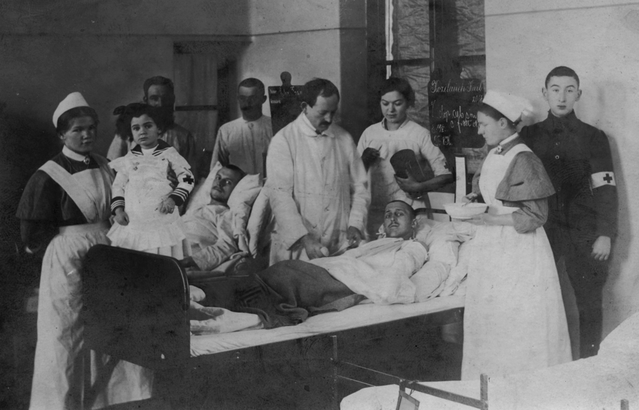 Eugeniusz Reach (1877-1950) surgeon at the patient (wounded soldier) in the hospital in Bielsko, 1915